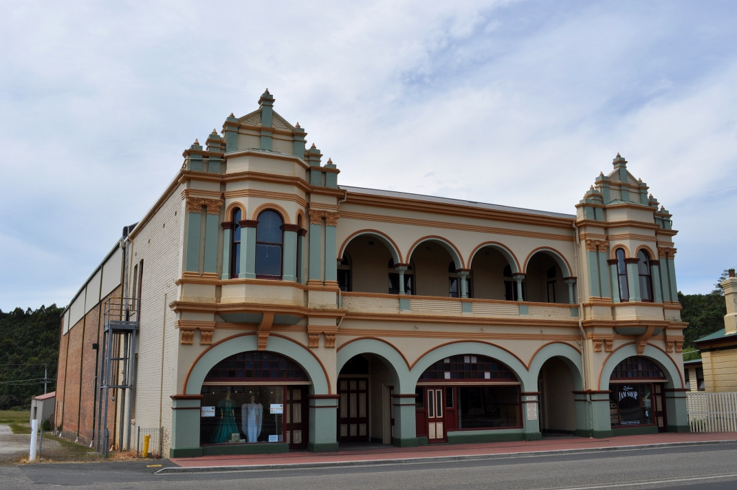 Theatre built in 1899, at the time was the largest theatre in Australia. Attracted miners from all over western Tasmania at its peak.